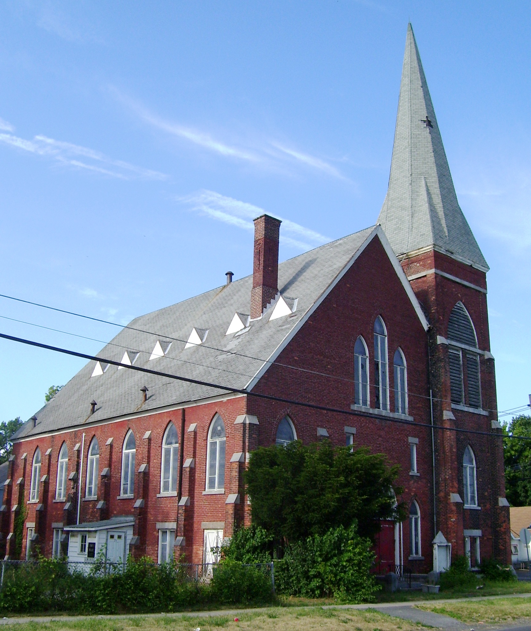 The Wall Street Methodist Episcopal Church, now the home of the African Methodist Episcopal Zion Church, is a historic church located at 69 Wall Street in Auburn, New York. It is a large Gothic Revival style brick and limestone structure built in 1887, an example of an auditorium plan church, popular in church design fron the 1880s to 1920s.